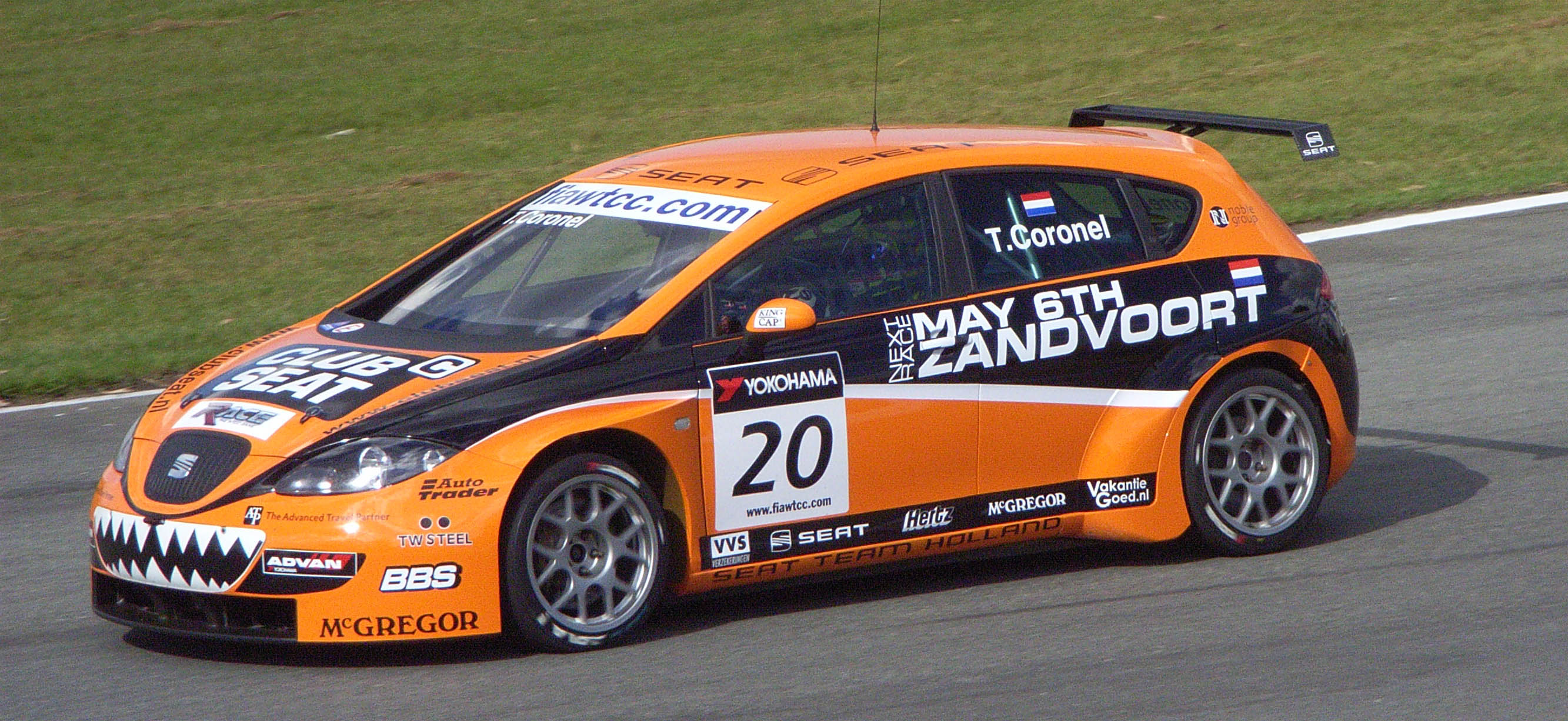 World Touring Car Championship 2007: Tom Coronel (GR Asia) - SEAT Léon with an advertisement for the next race at Zandvoort circuit in the Netherlands